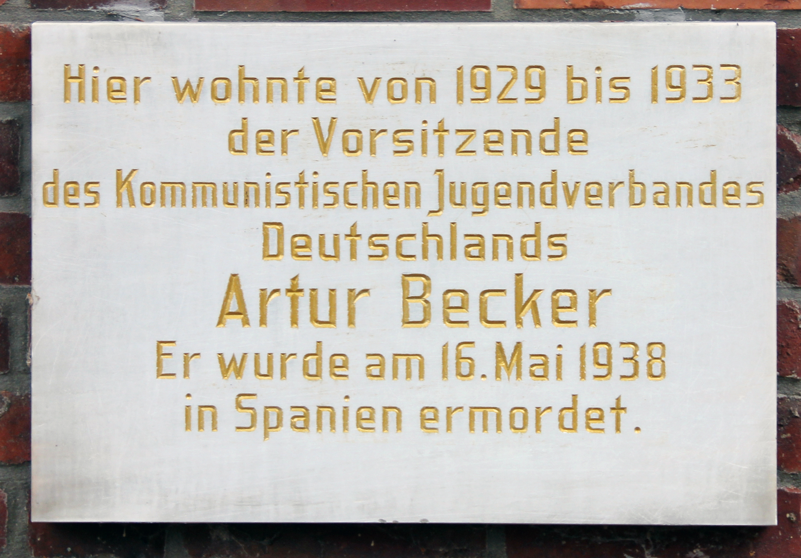 Memorial plaque, Artur Becker, Dingelstädter Straße 48, Berlin-Alt-Hohenschönhausen, Deutschland